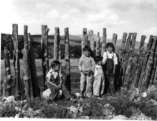 [Photo] 1941—Children near Rio Hondo. 1941—Children near Rio Hondo. Behind the boys is a typical fence, using considerable wood, found along village streets. Photo by E. O. Buhler FS #414616